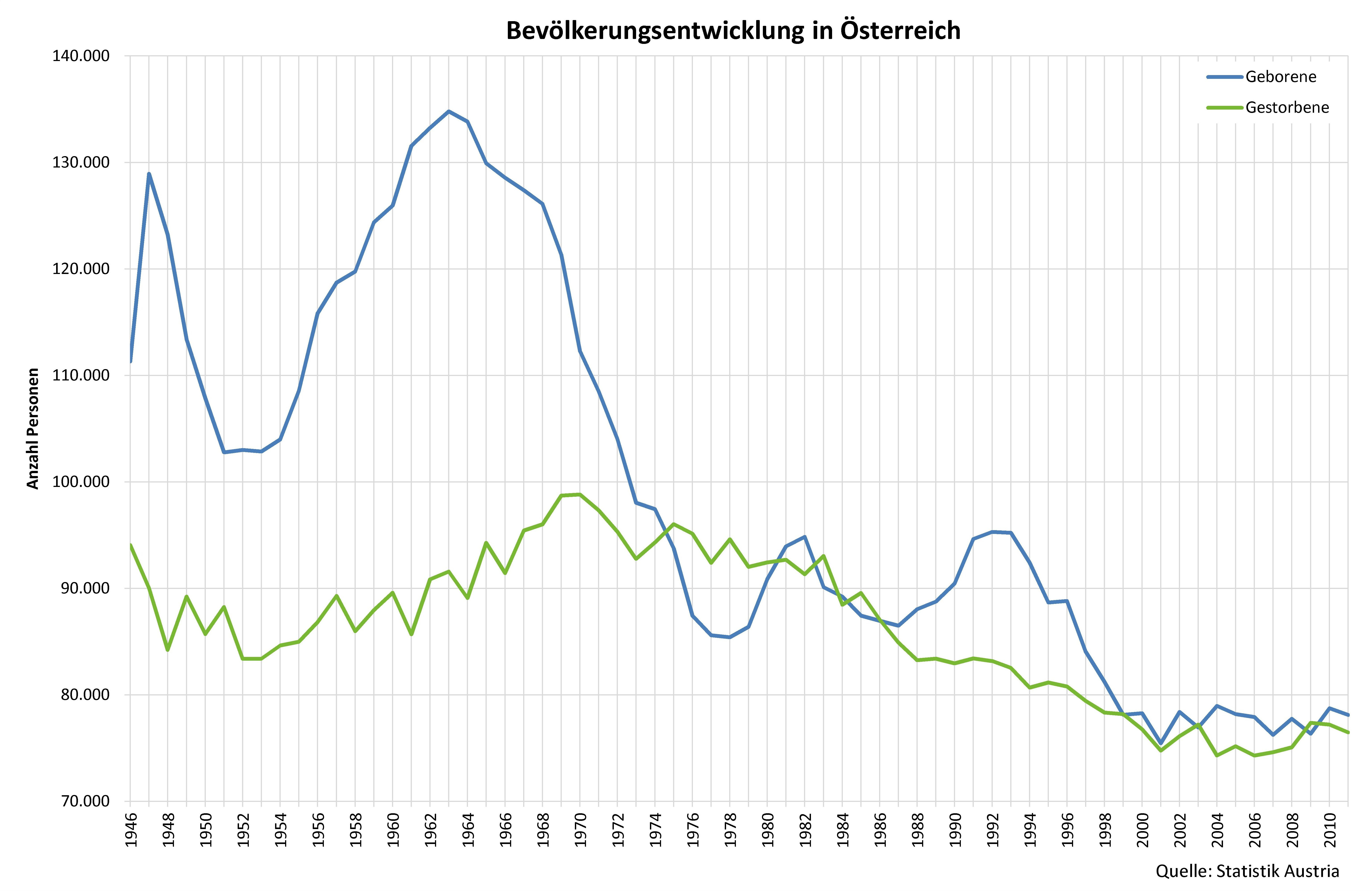 Birth and death (absolute) rates in Austria 1946–2011.